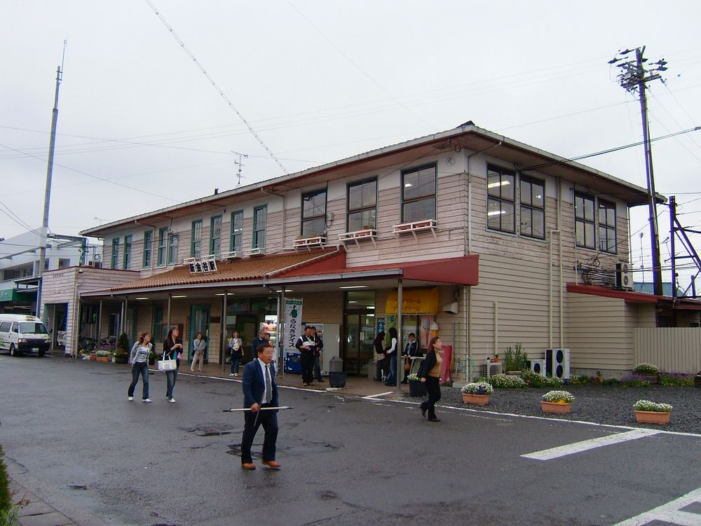 Shin-Kanaya Station on the Oigawa Railway